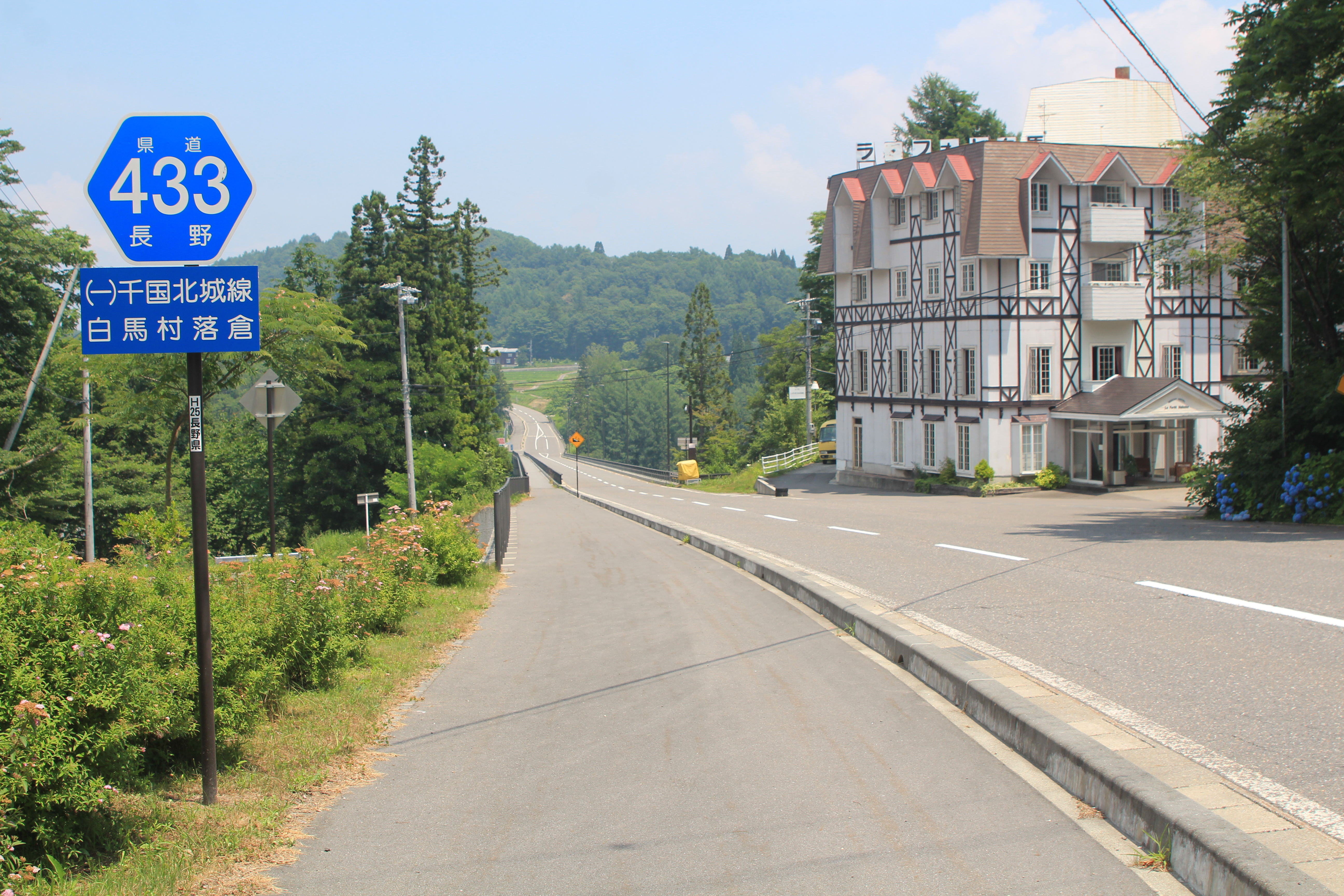 Nagano Prefectural Road Route 433 (Chikuni-Hokujō Line) in Ochikura, Hokujō, Hakuba, Nagano Prefecture, Japan.